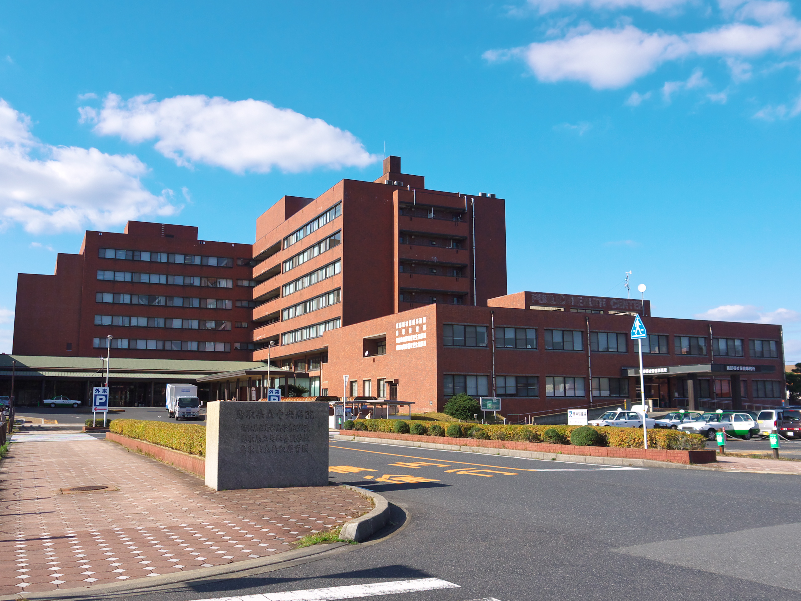 Tottori Prefectural Central Hospital, Tottori, Tottori prefecture